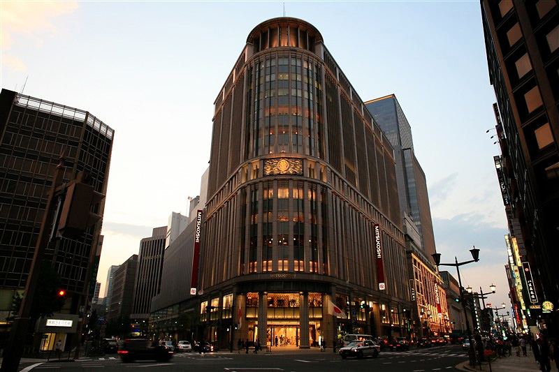 Photographed by angaurits in March 2007